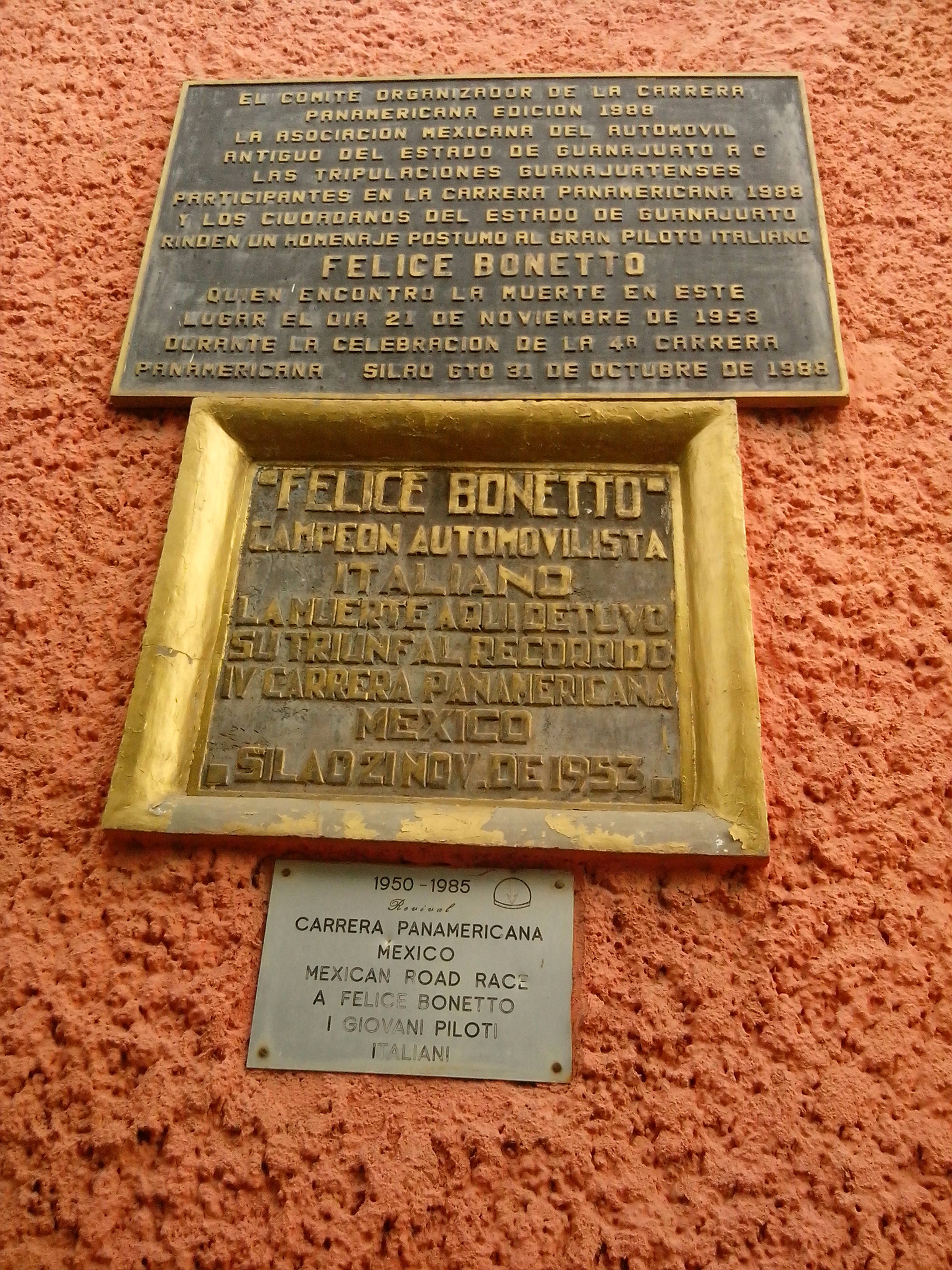 Placa dedicada a Felice Bonetto por los aficionados y pueblo de Silao, Guanajuato, México.